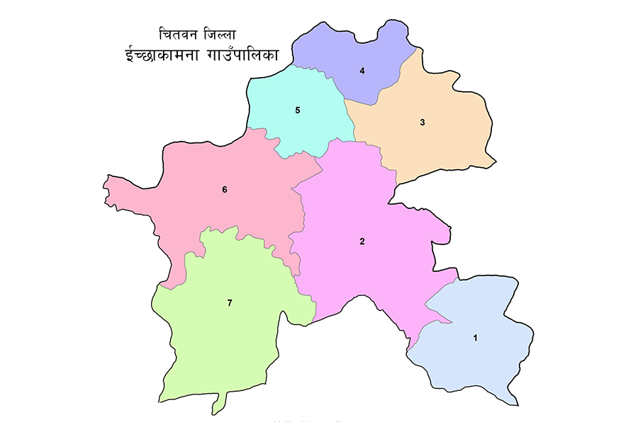 Echyakamana नेपाली: इच्छाकामना गाउँपालिका